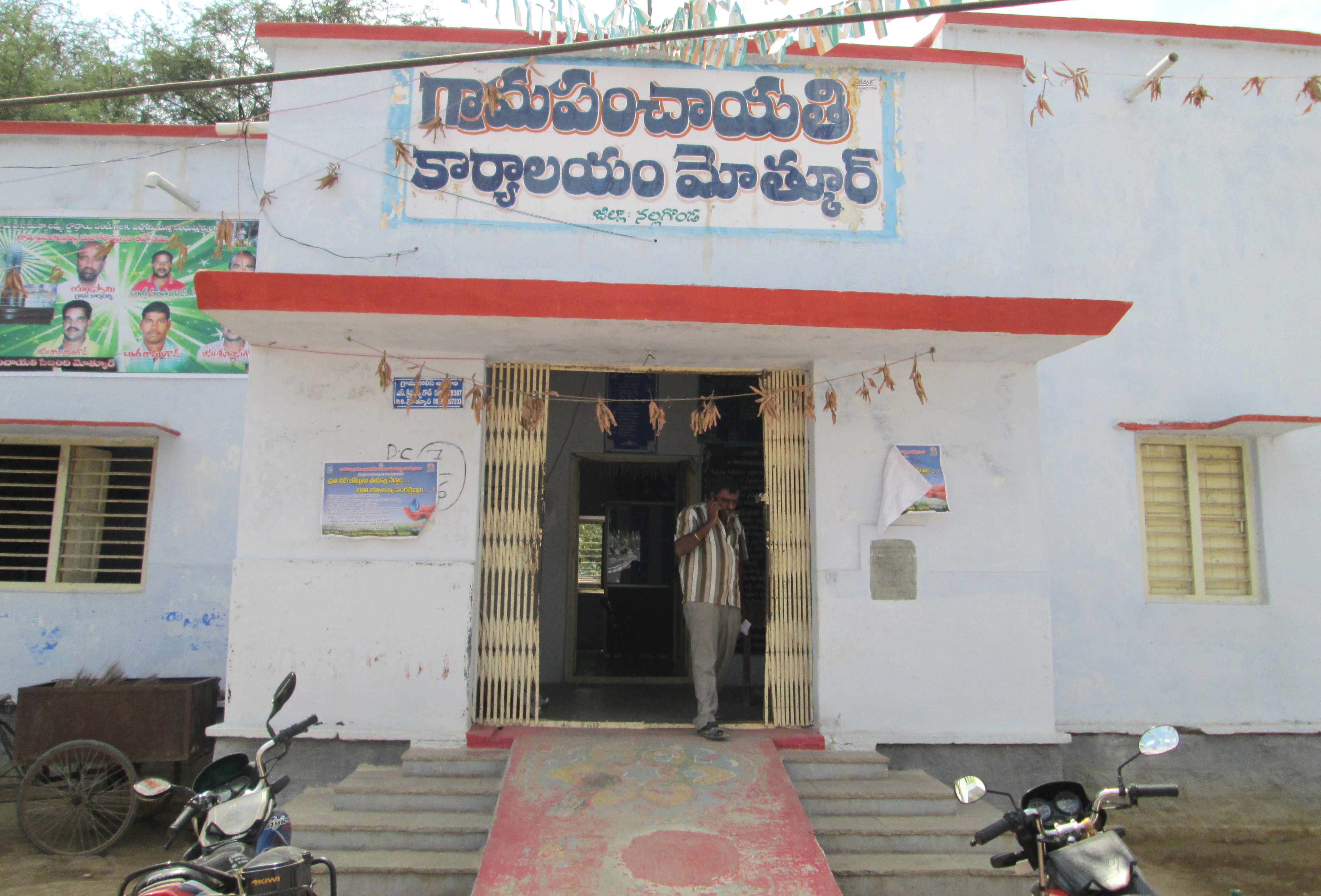 మోత్కూర్